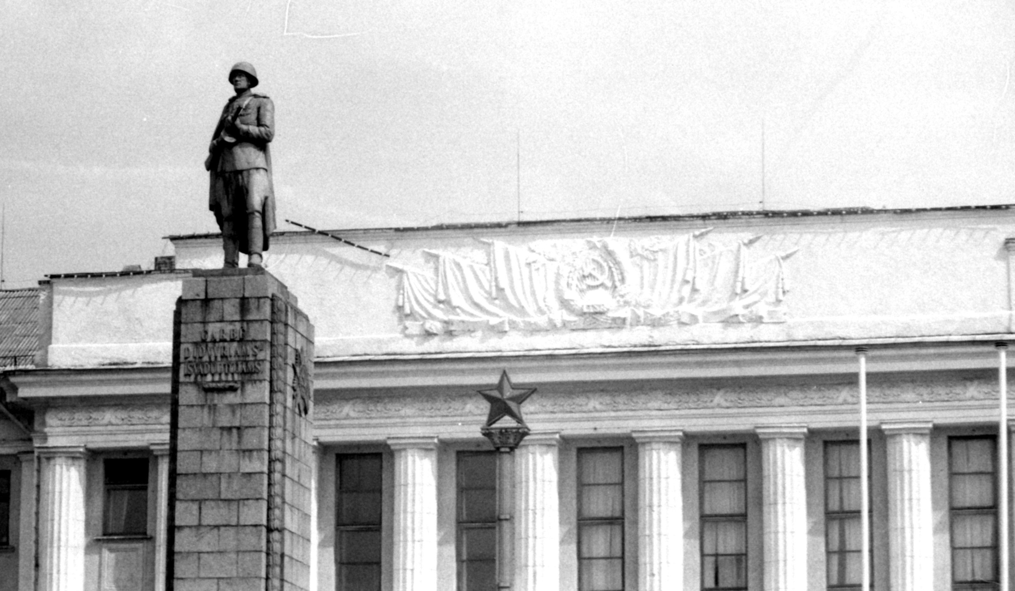 Monument of soviet army in Šiauliai, Lithuania, 1990